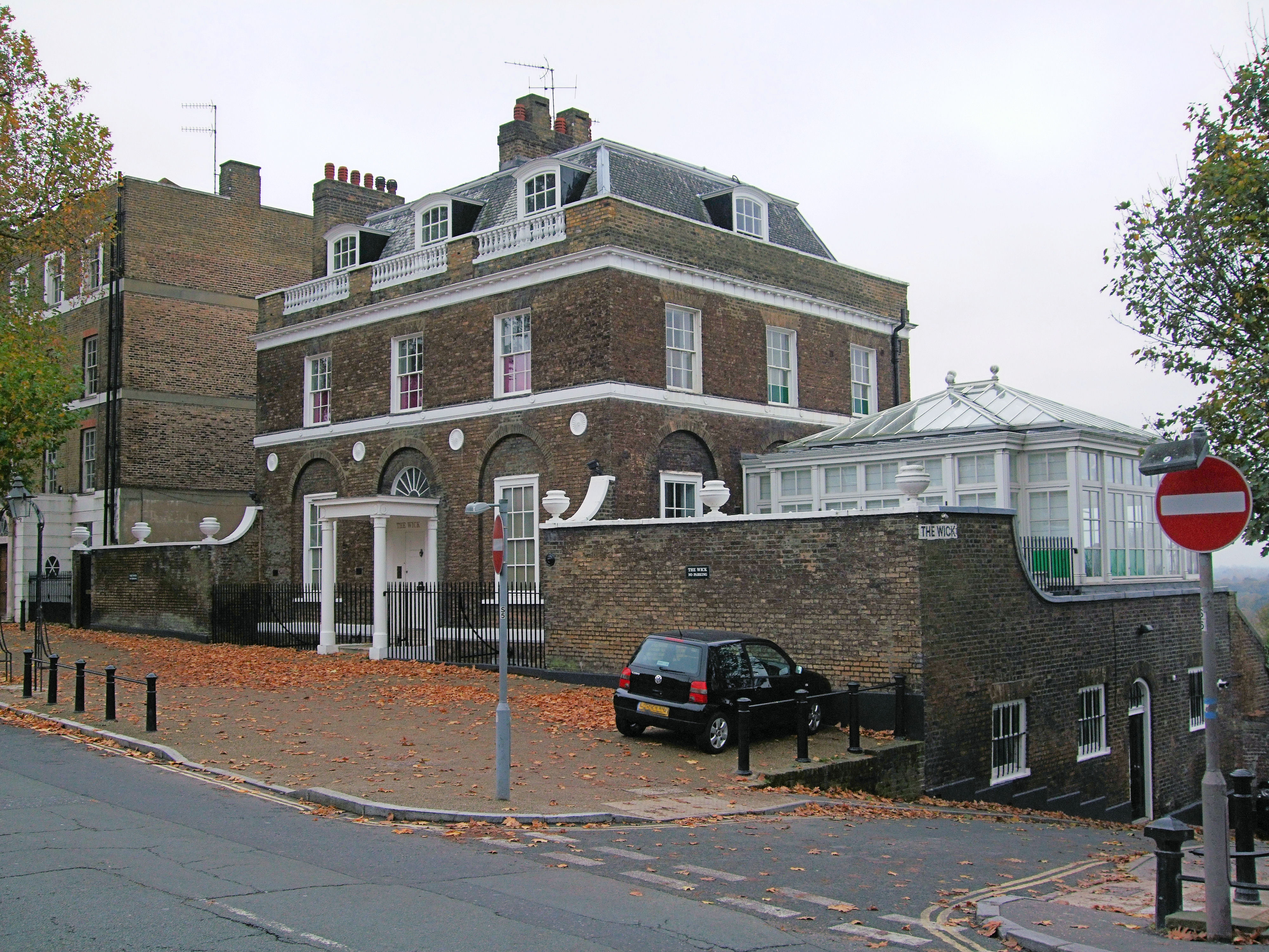 The Wick, Richmond Hill (& Nightengale Lane), Richmond, London, UK